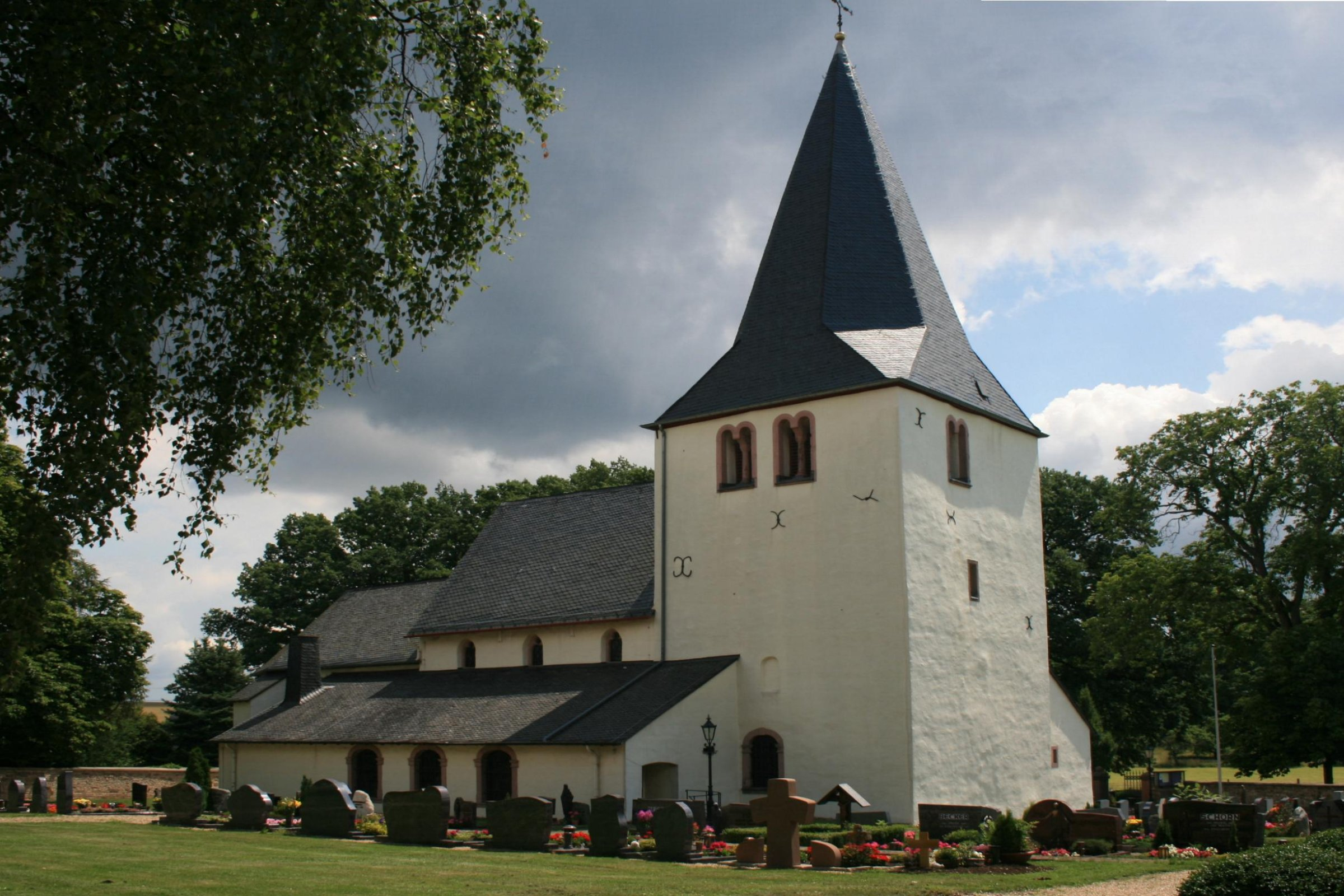 Cultural heritage monument No. 11 in Heimbach